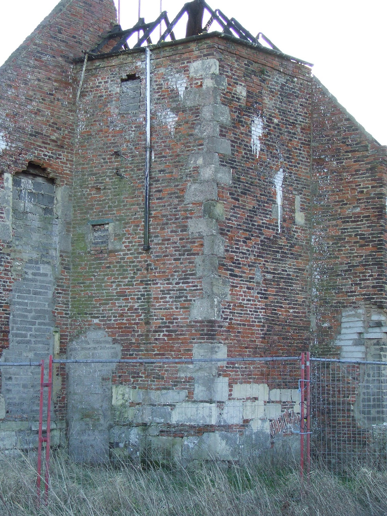 Close up of Haltemprice Priory Farmhouse, Willerby, East Riding of Yorkshire, England.Note the ashlar blocks running up the corner of the building. It's suggested that these are from the Priory.